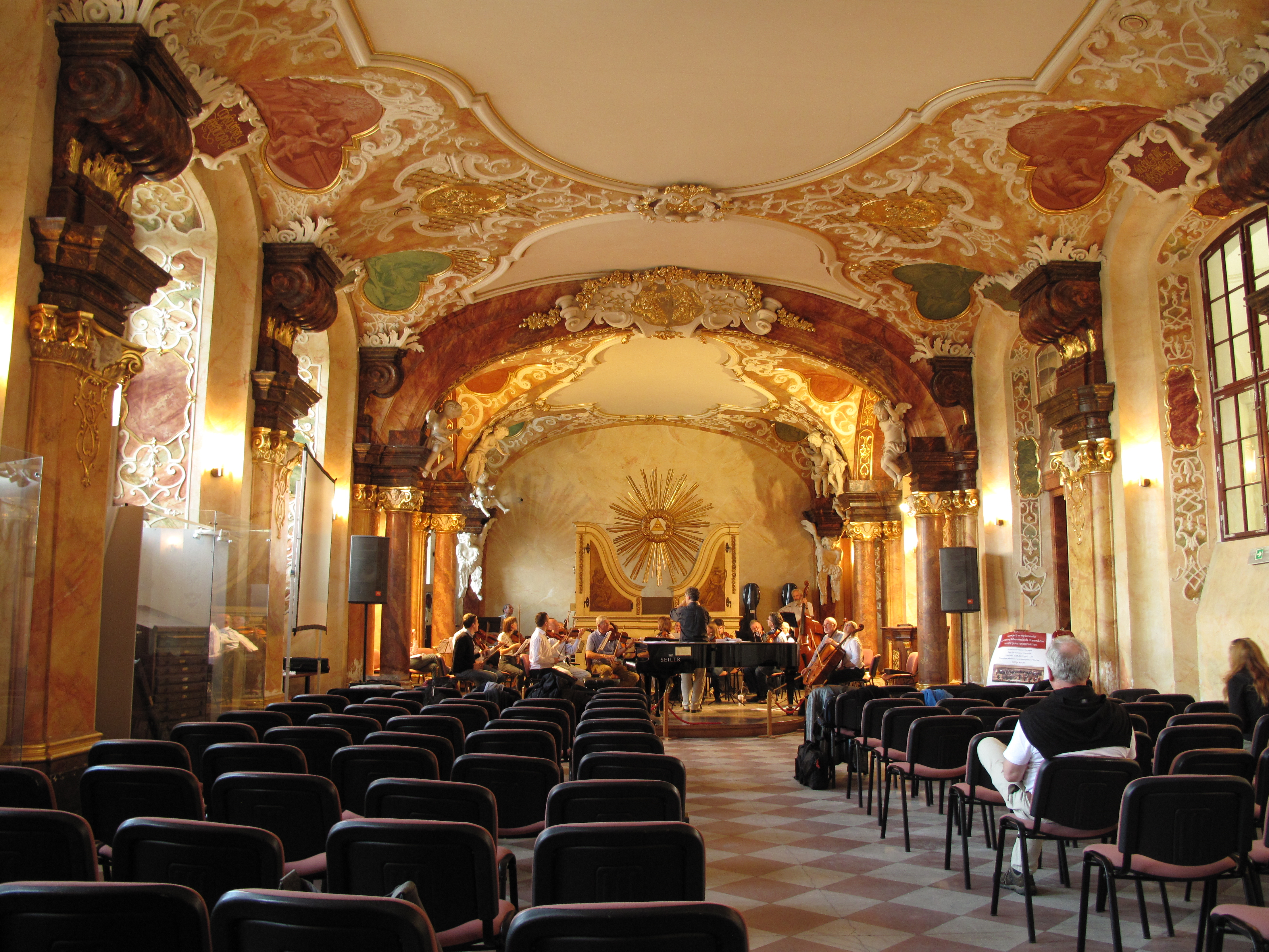 Oratorium Marianum, Wrocław, Poland.